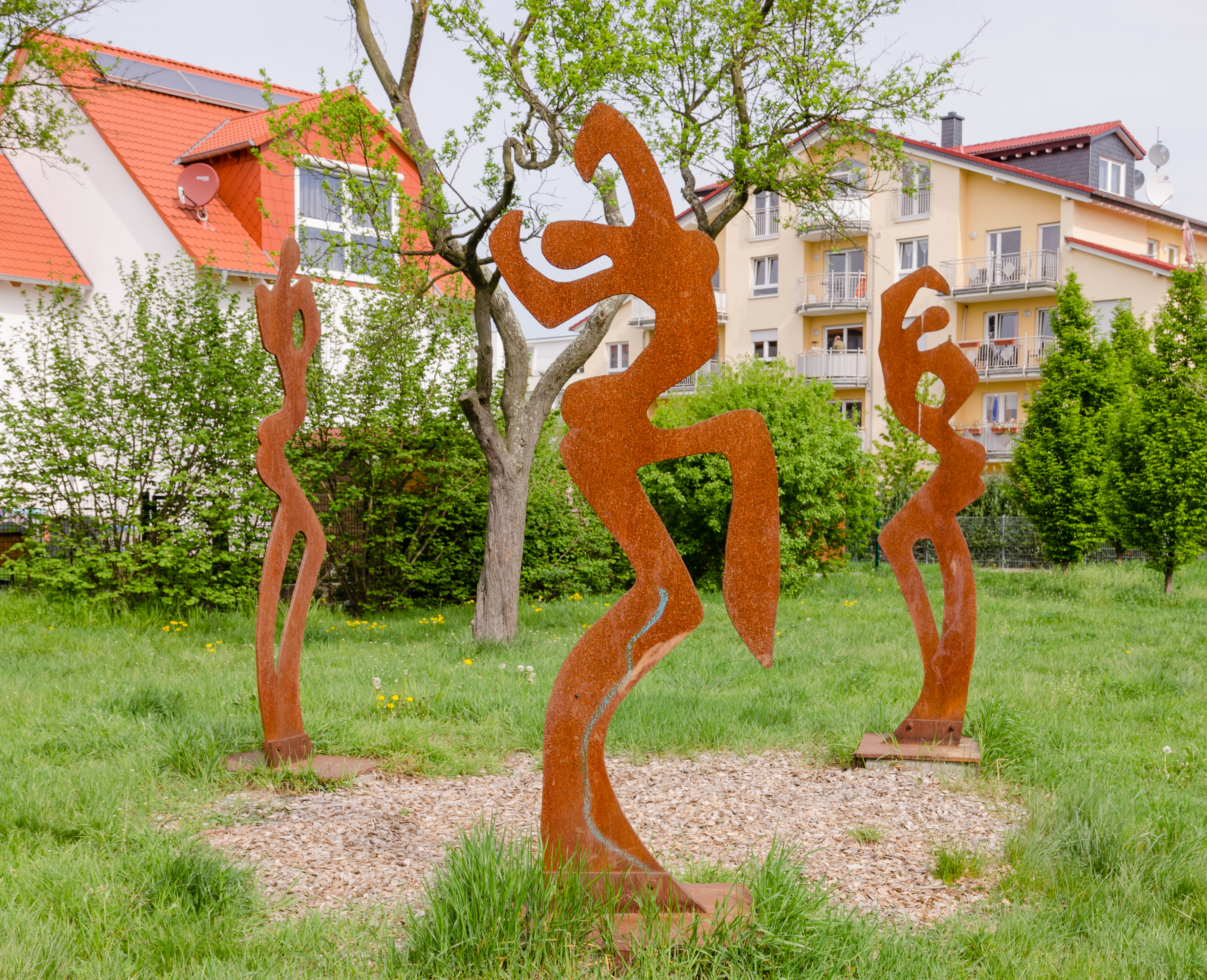 Drei Tänzerinnen, Mörfelden-Walldorf, Hesse, Germany.